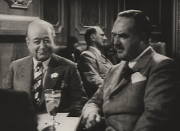 Walter Walker and William B. Davidson in Dangerous - trailer (cropped screenshot)